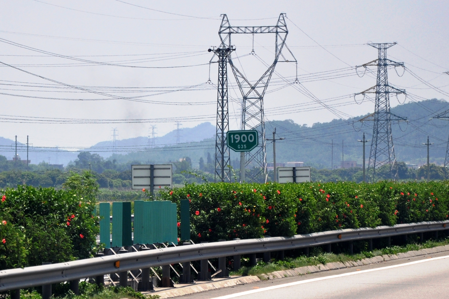 China Expressway G35 1900 km milestone, Zengcheng District, Guangzhou, Guangdong